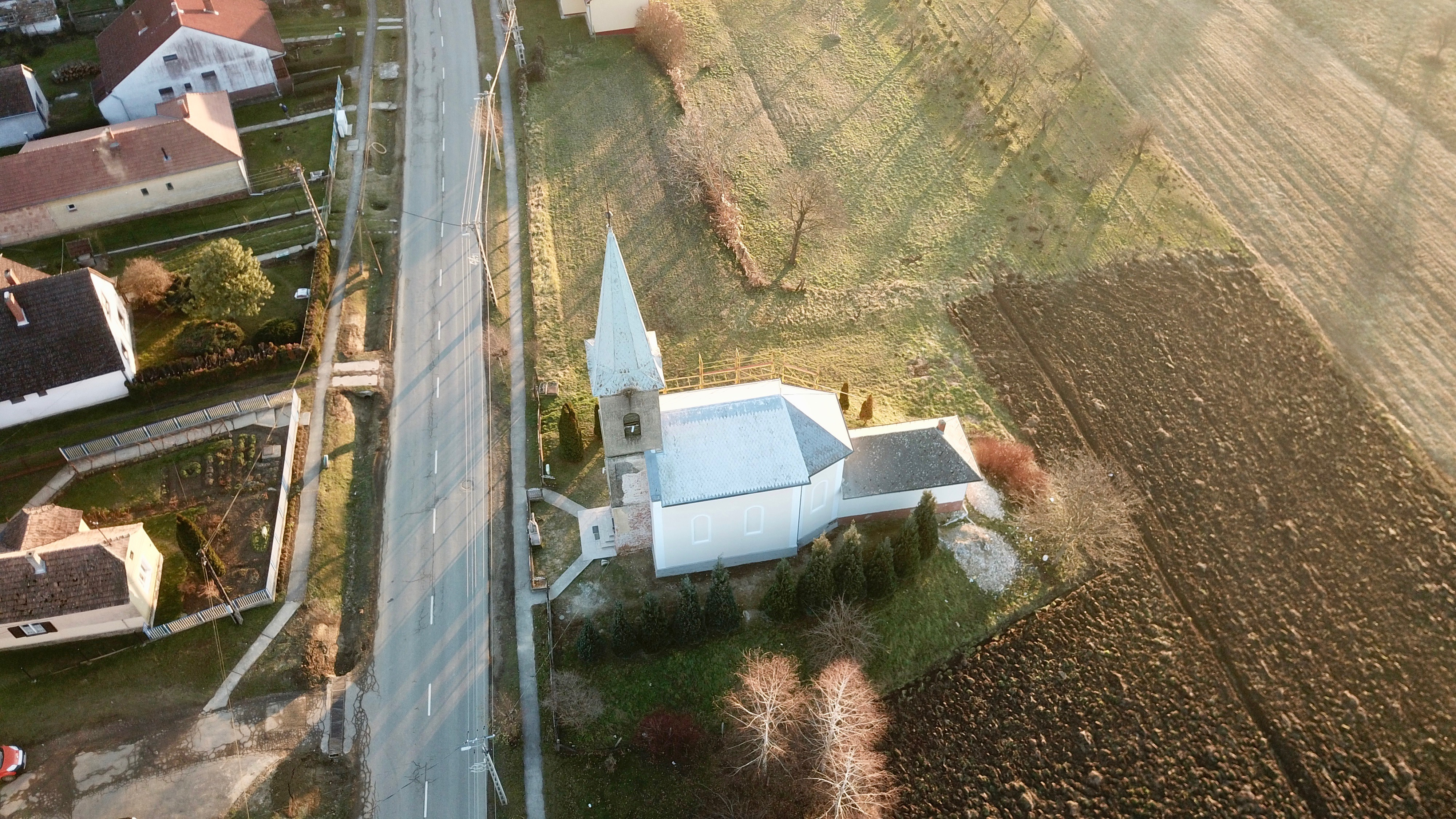 Aerial view of Our Lady church in Pusztaszentlászló (Zala county, Hungary)